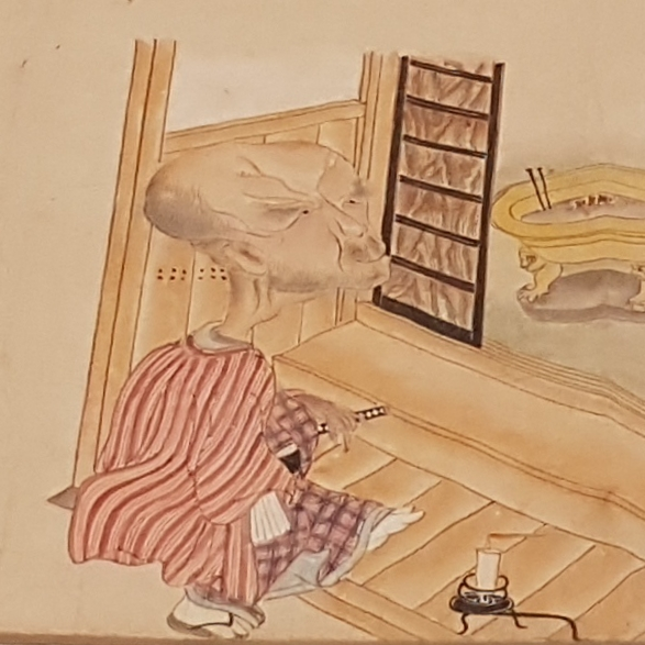 Nurarihyon, Japan yōkai, Bakemono-Zukushi Picture Scroll, Edo Period, 18-19th century